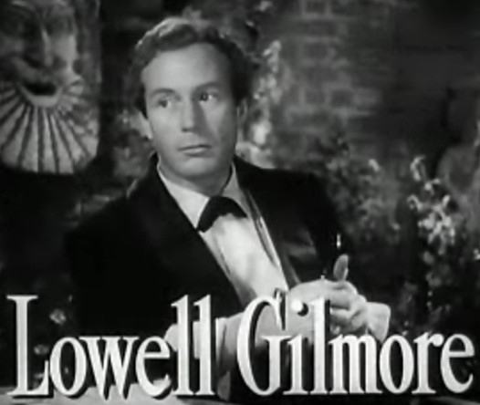 Cropped screenshot of Lowell Gilmore from the trailer for the film The Picture of Dorian Gray.